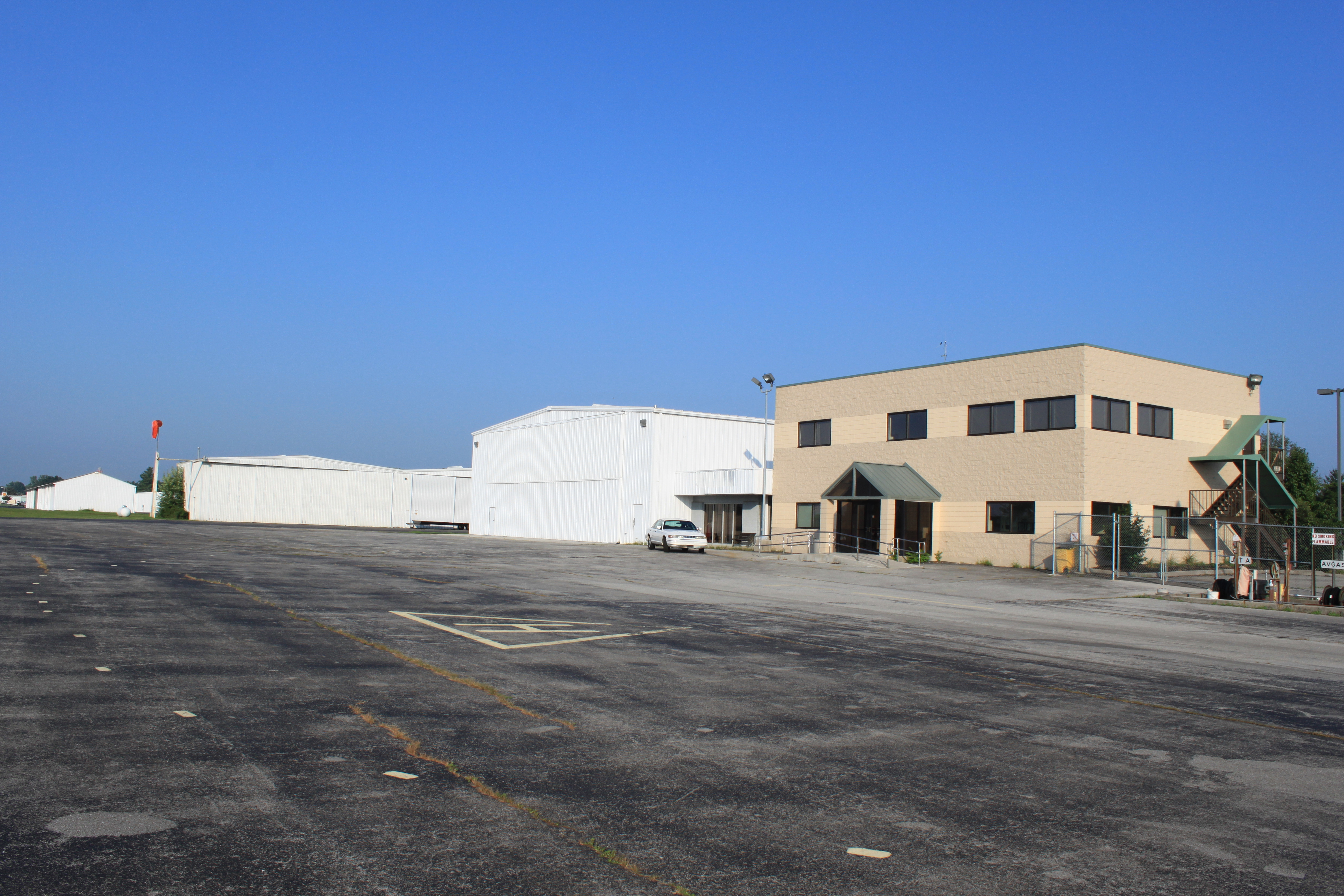 Moore-Murrell Airport, Morristown Tennessee, Hangar, terminal and tarmac area.